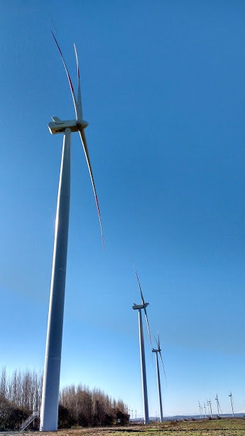 parque eólico